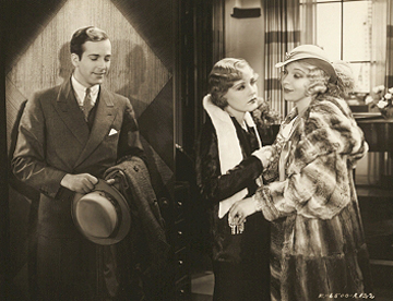 Movie still of David Manners, Madge Evans, Ina Claire from The Greeks Had a Word for Them (also known as Three Broadway Girls) (1932).